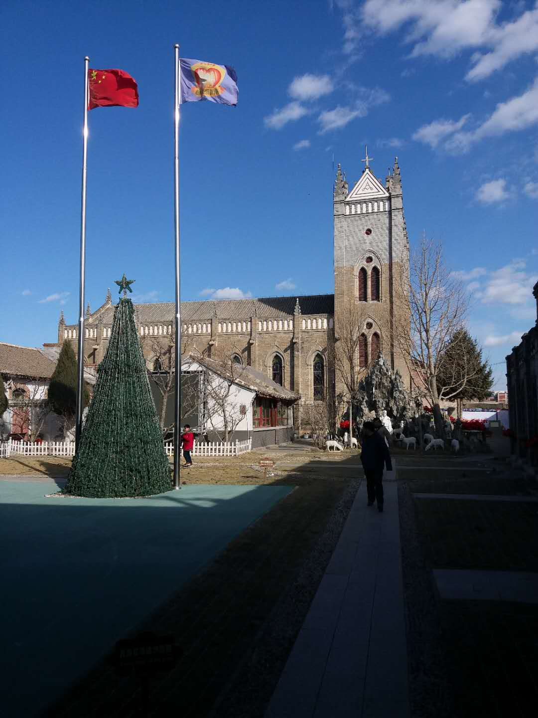 Yongning Catholic Church in Yongning town in Yanqing District of Beijing